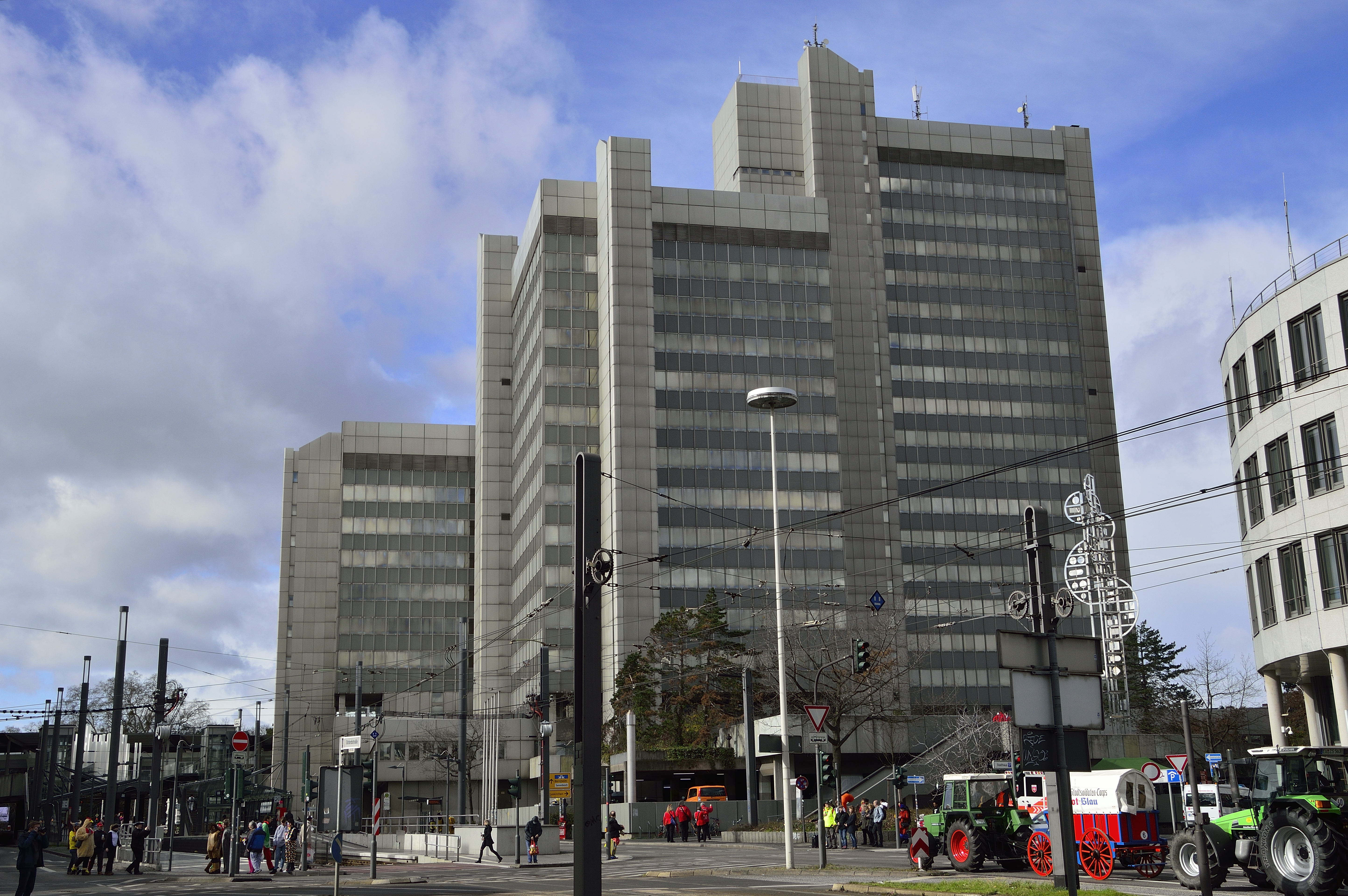 New Town Hall Stadthaus in Bonn, Germany